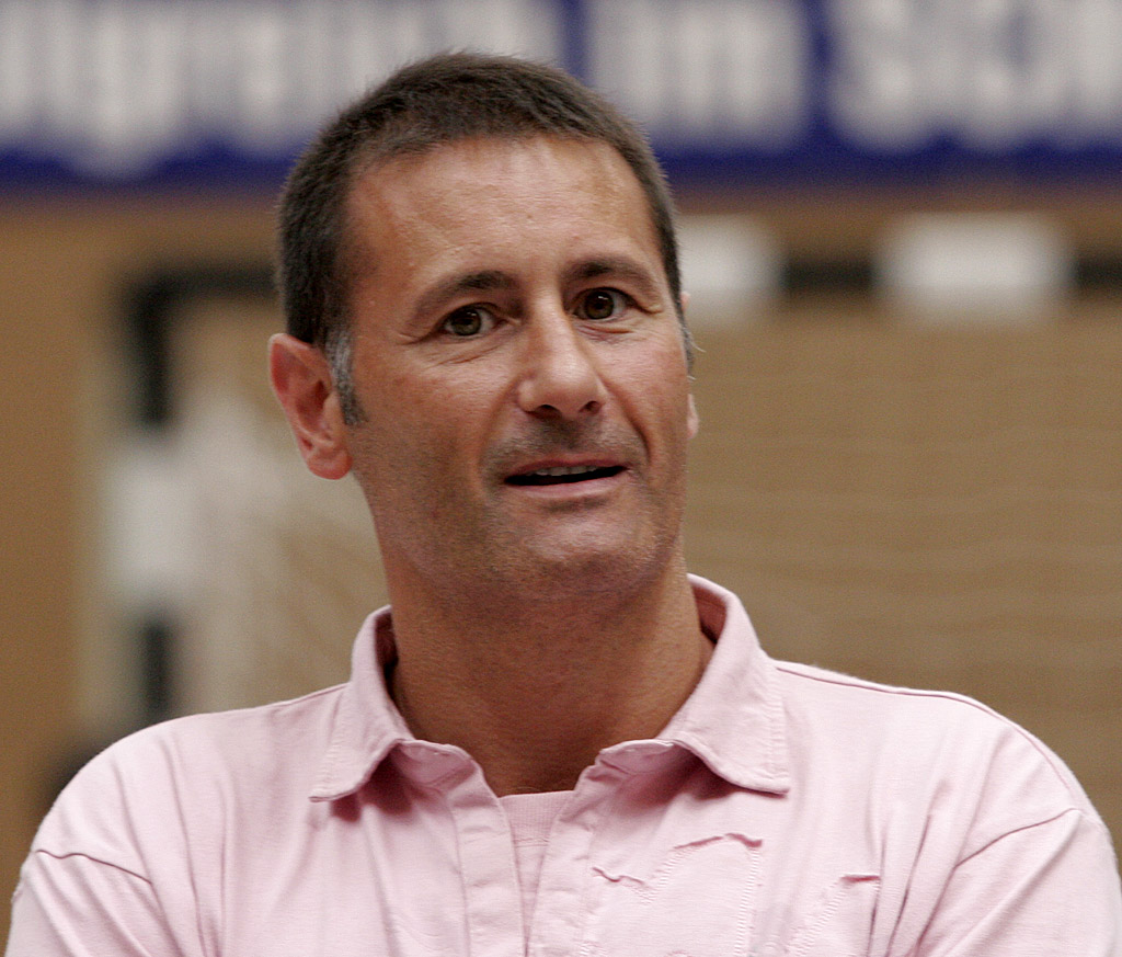 Jaume Fort Mauri, the former Spanish handball goalkeeper, during the Schlecker Cup 2007 in Ehingen (Germany)